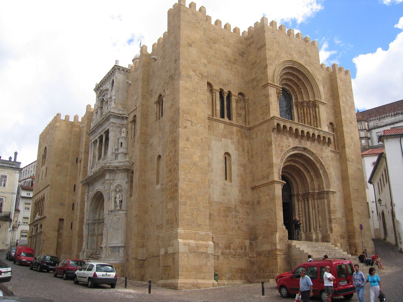 The old cathedral, Sé Velha, in the center of old town Coimbra.